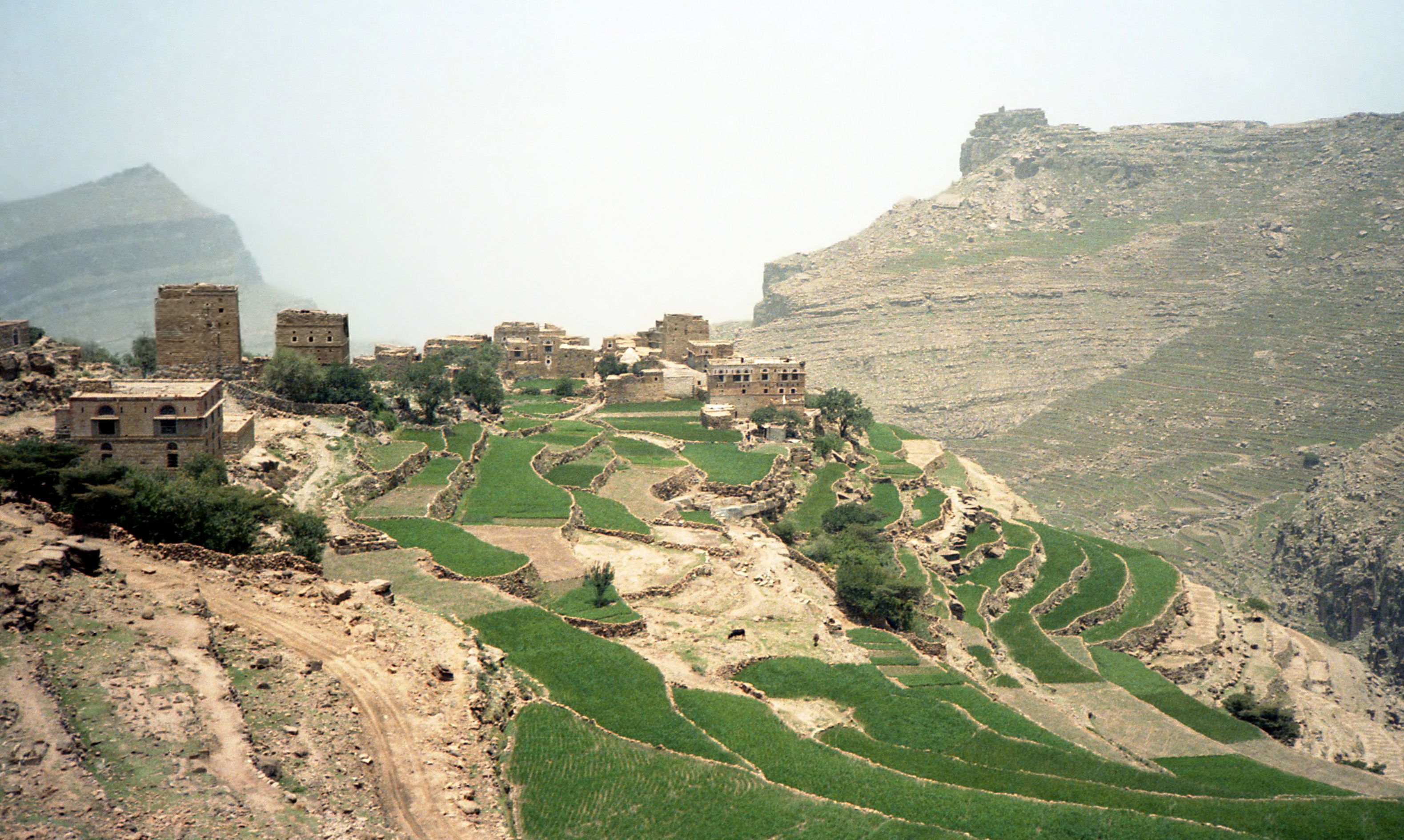 Agricultural terraces near At Tawilah, Yemen